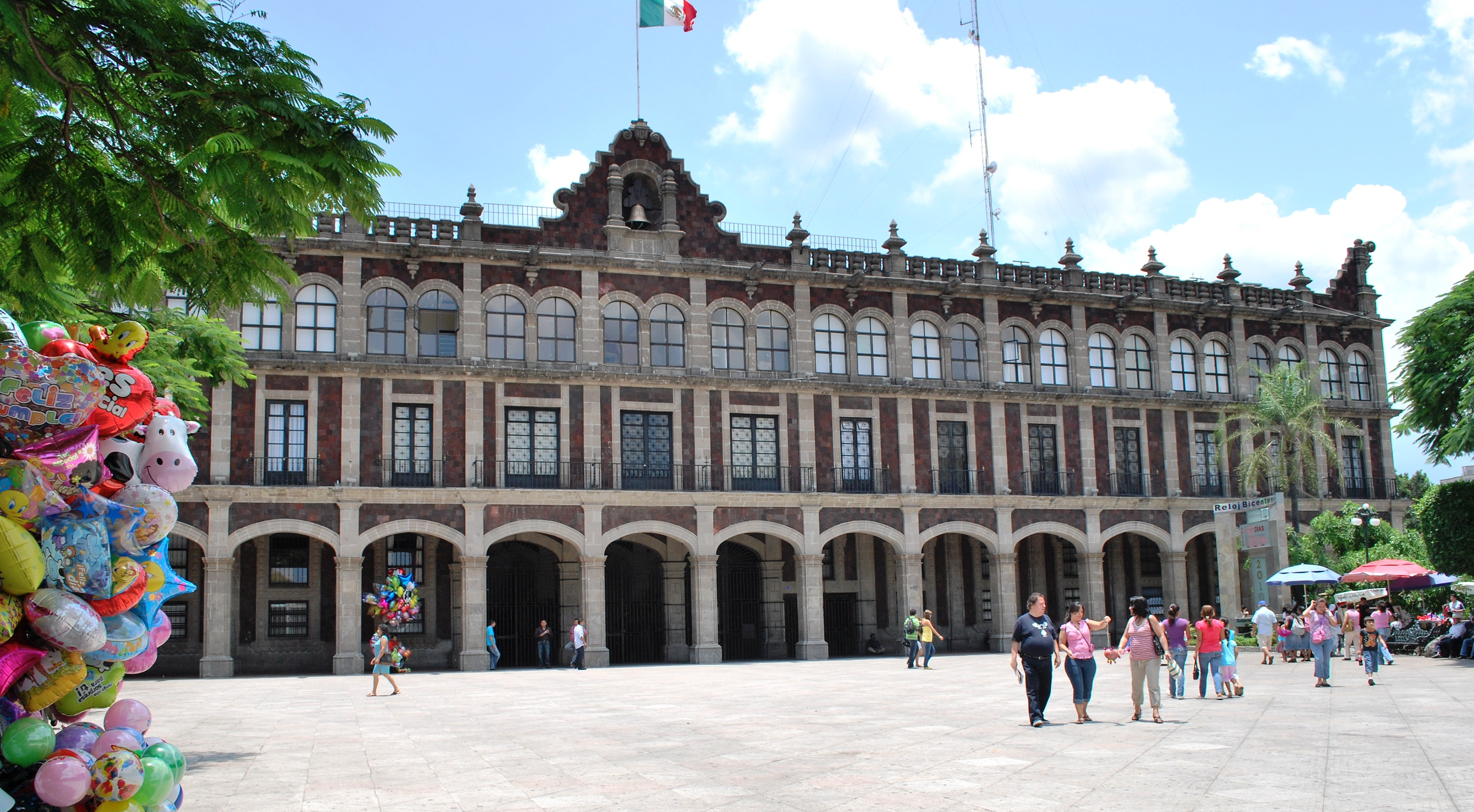 State Government Palace of Morelos located in downtown Cuernavaca on Parque Morelos in Mexico